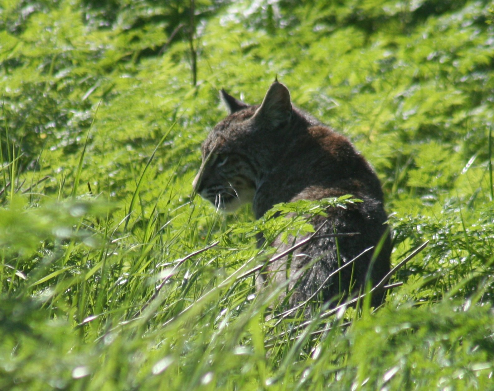 Cropped version of bobcat in tall grass for better thumbnail display